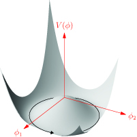 Mexican Hat Potential